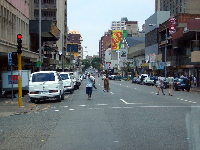 A street in Hillbrow, Johannesburg.